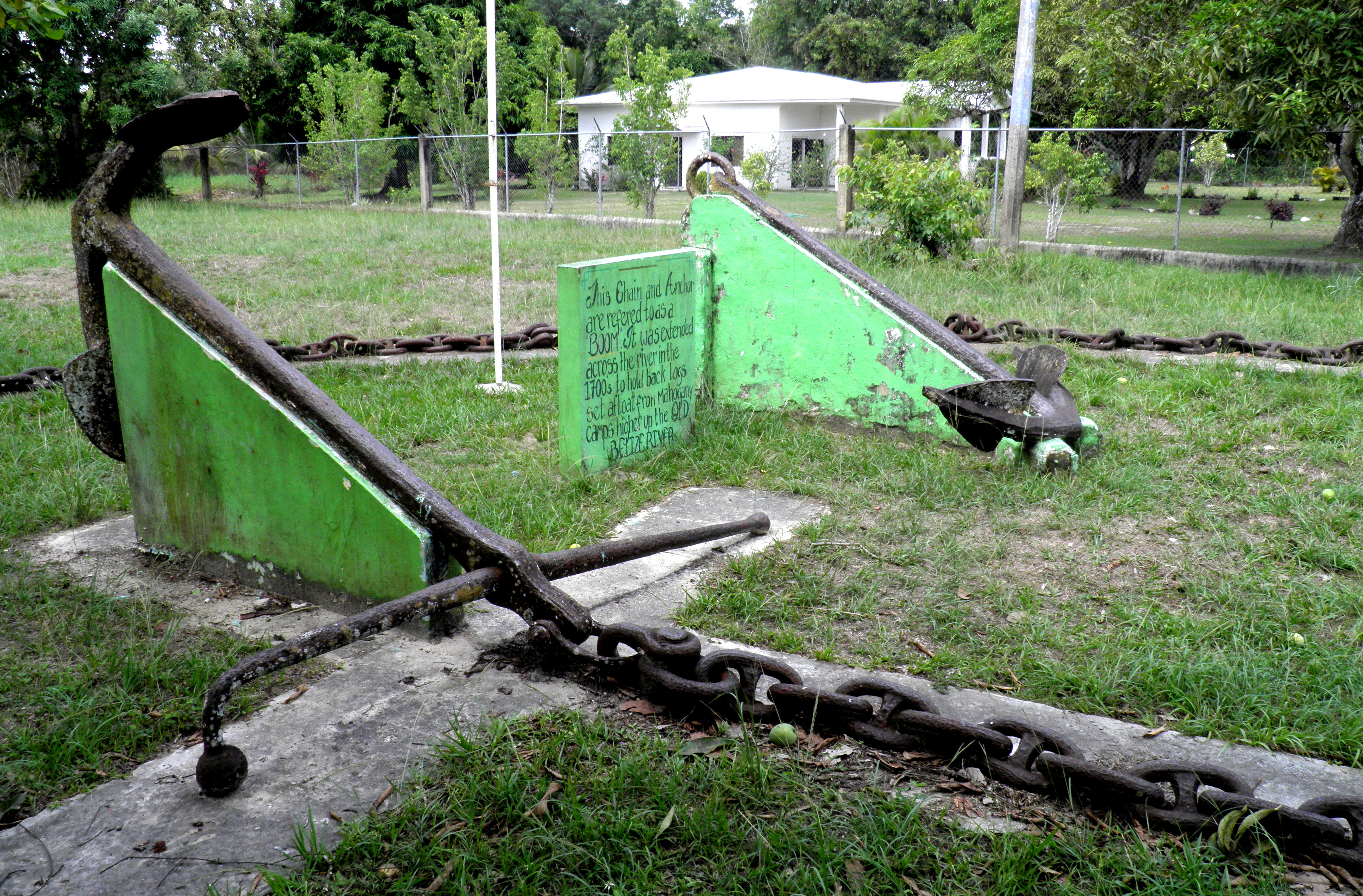 Anchor and chain, the original 'Boom' of Burrell Boom